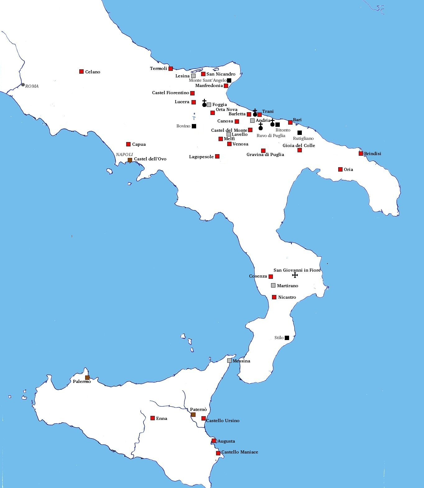 Map of Hohenstaufen castles in Southern Italy